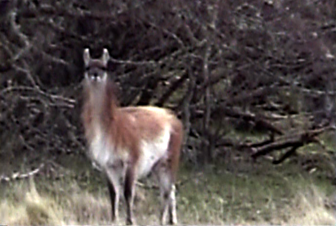 Guanacos (Lama guanicoe guanicoe) in the main island of Tierra del Fuego, Tierra del Fuego Province, Argentina.